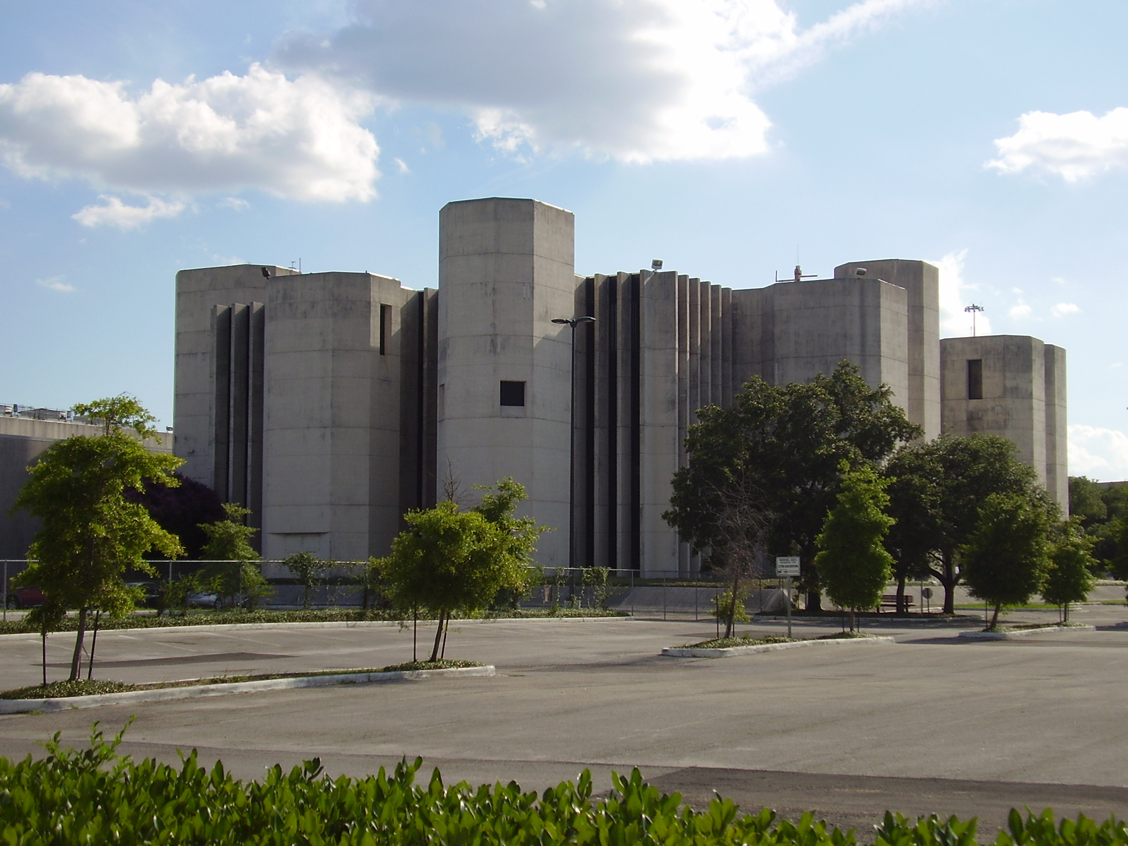 A Houston Chronicle plant, which houses the headquarters of La Voz de Houston and formerly the Houston Post headquarters - 4747 Southwest Freeway Houston, TX 77027